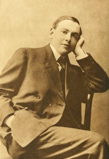 Picture of Harry Peyton Steger at 22, 1904.